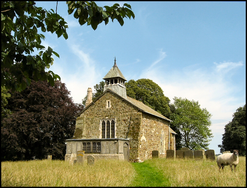 The archetypal country church at Lusby is dedicated to St. Peter. It lies down a quite lane in this sleepy little village situated in the heart of the Lincolnshire Wolds. It is an ancient building with many Anglo-Saxon features. A church at Lusby is mentioned in The Doomsday Book (1086). It may well be one of the oldest churches in the Diocese. It underwent restoration in 1892. When I visited the church I was greeted by a flock of sheep which were grazing in the churchyard and who followed me around under the mistaken impression I had come to feed them. One insisted on posing in the shot.